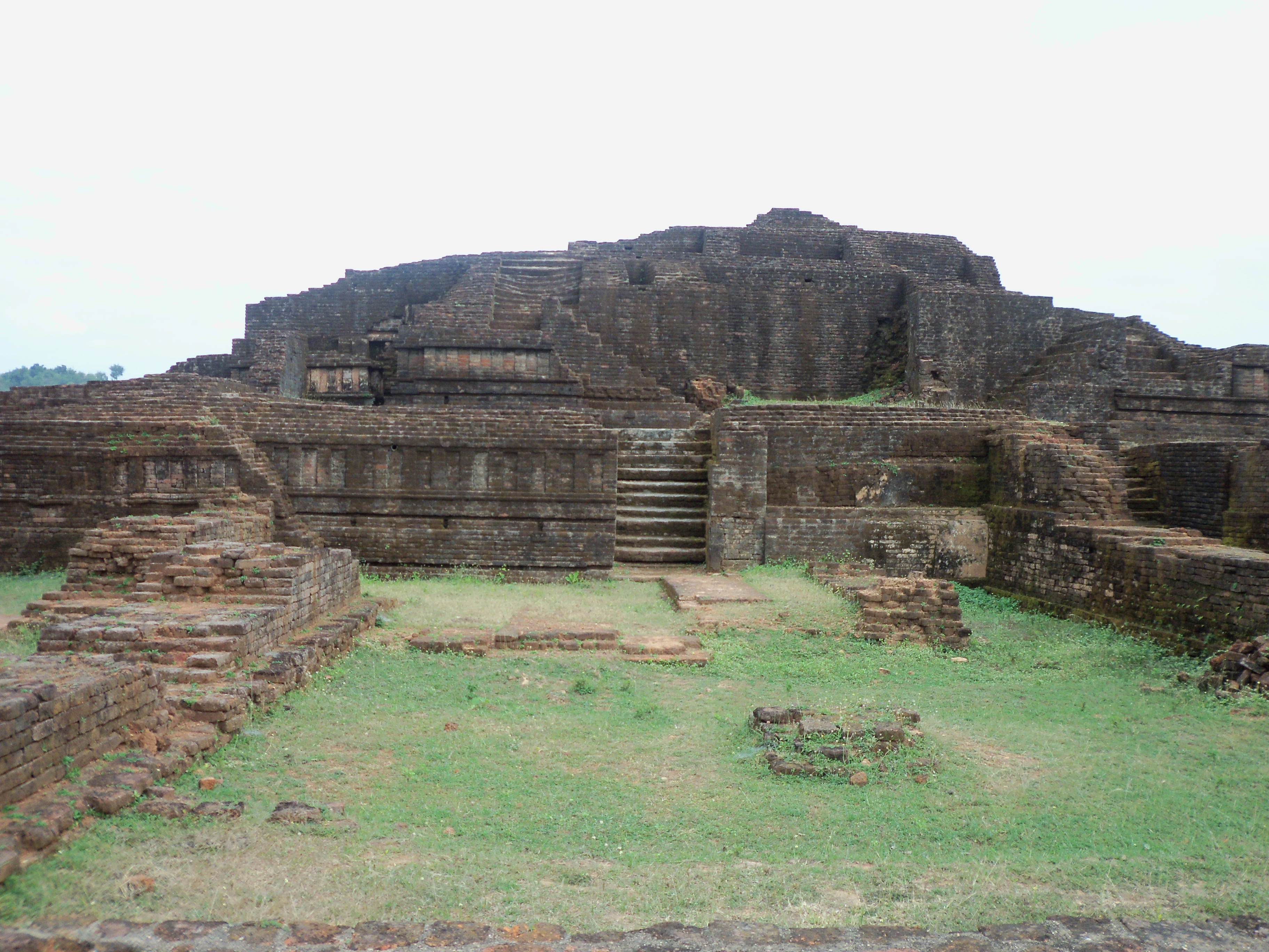 This image depicts excavation at Mansar,India.